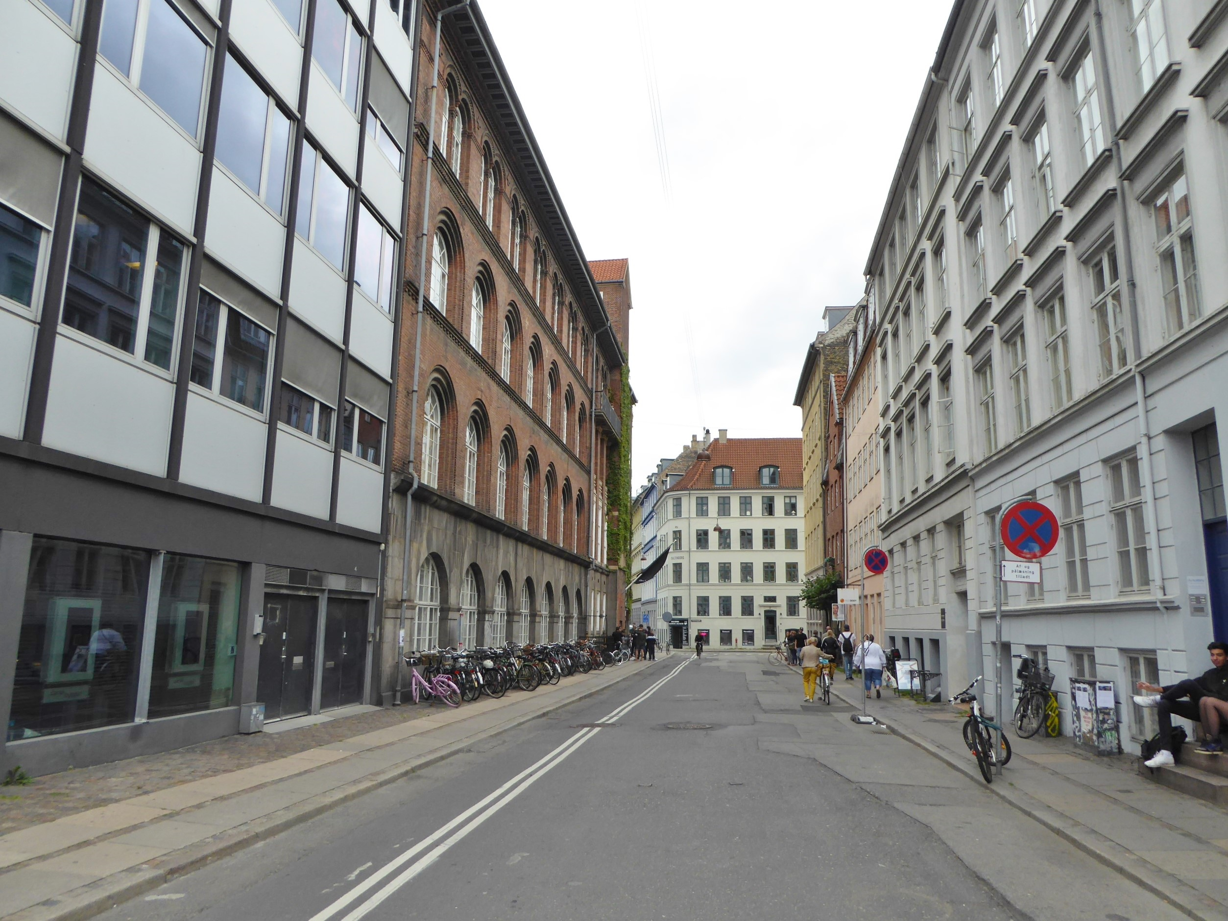 The street Tornebuskegade in Indre By in Copenhagen.